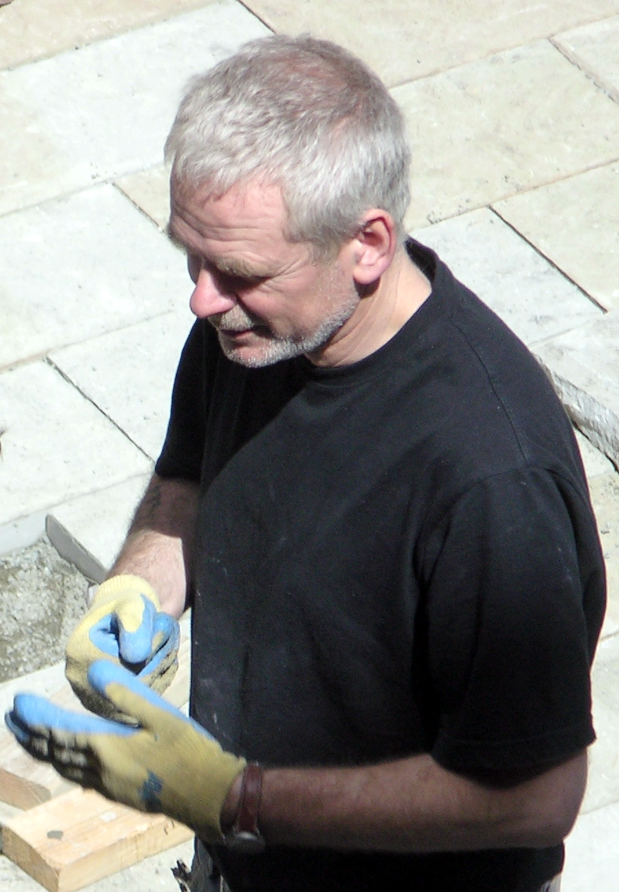 crop of Andy Goldsworthy from photo working on de Young installation. Levels adjusted.